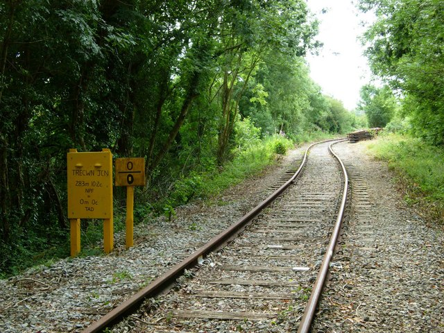 Branch to Trecwn. Taken from an accommodation level crossing looking along what was once a meandering branch to Clunderwen. That route was abandoned in the 1940s, but a stub was retained to give access to the Royal Naval Armaments Depot at Trecwn.